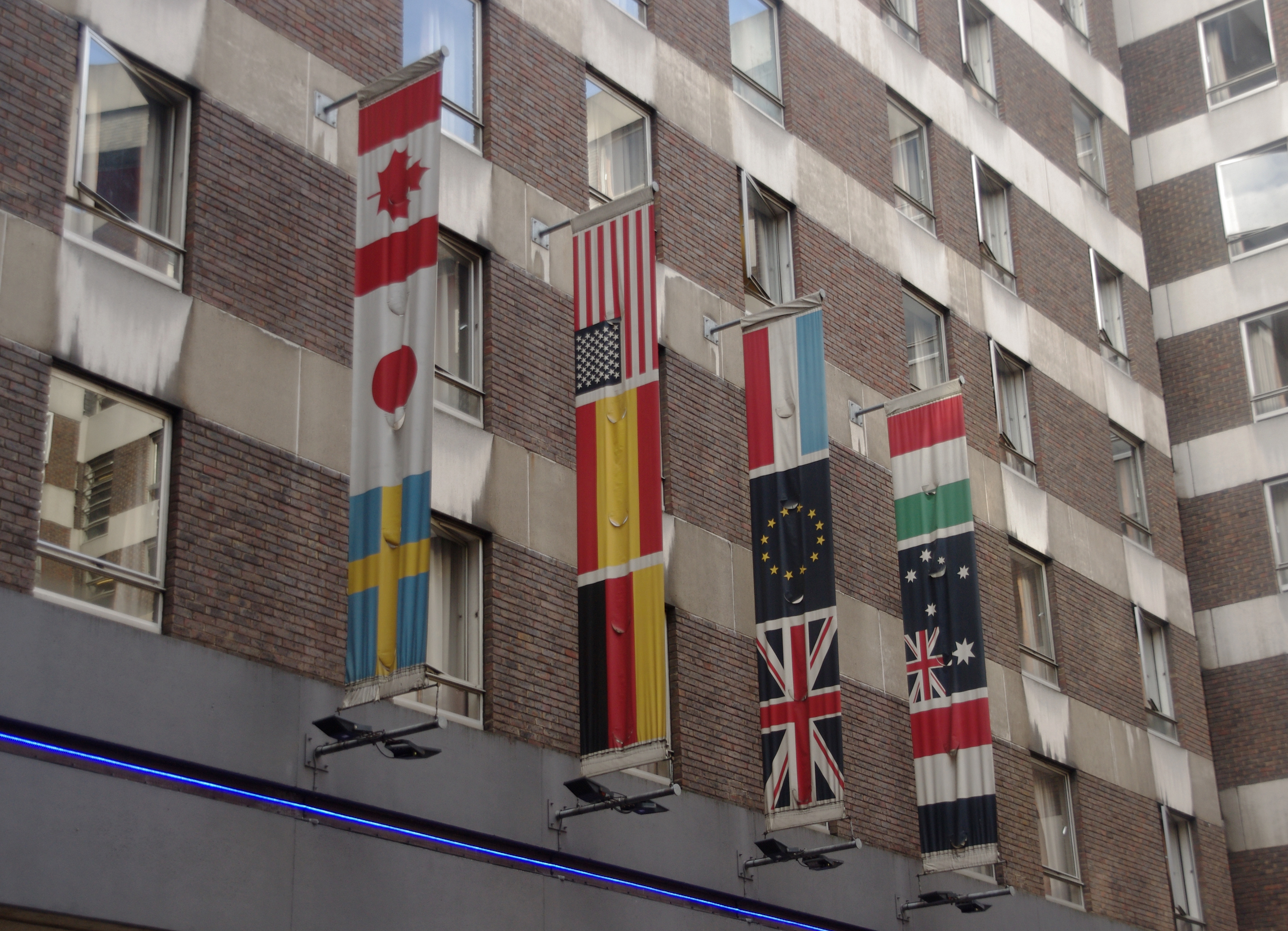 Flags in the courtyard of the Royal National Hotel on Bedford Way and Woburn Place, London.